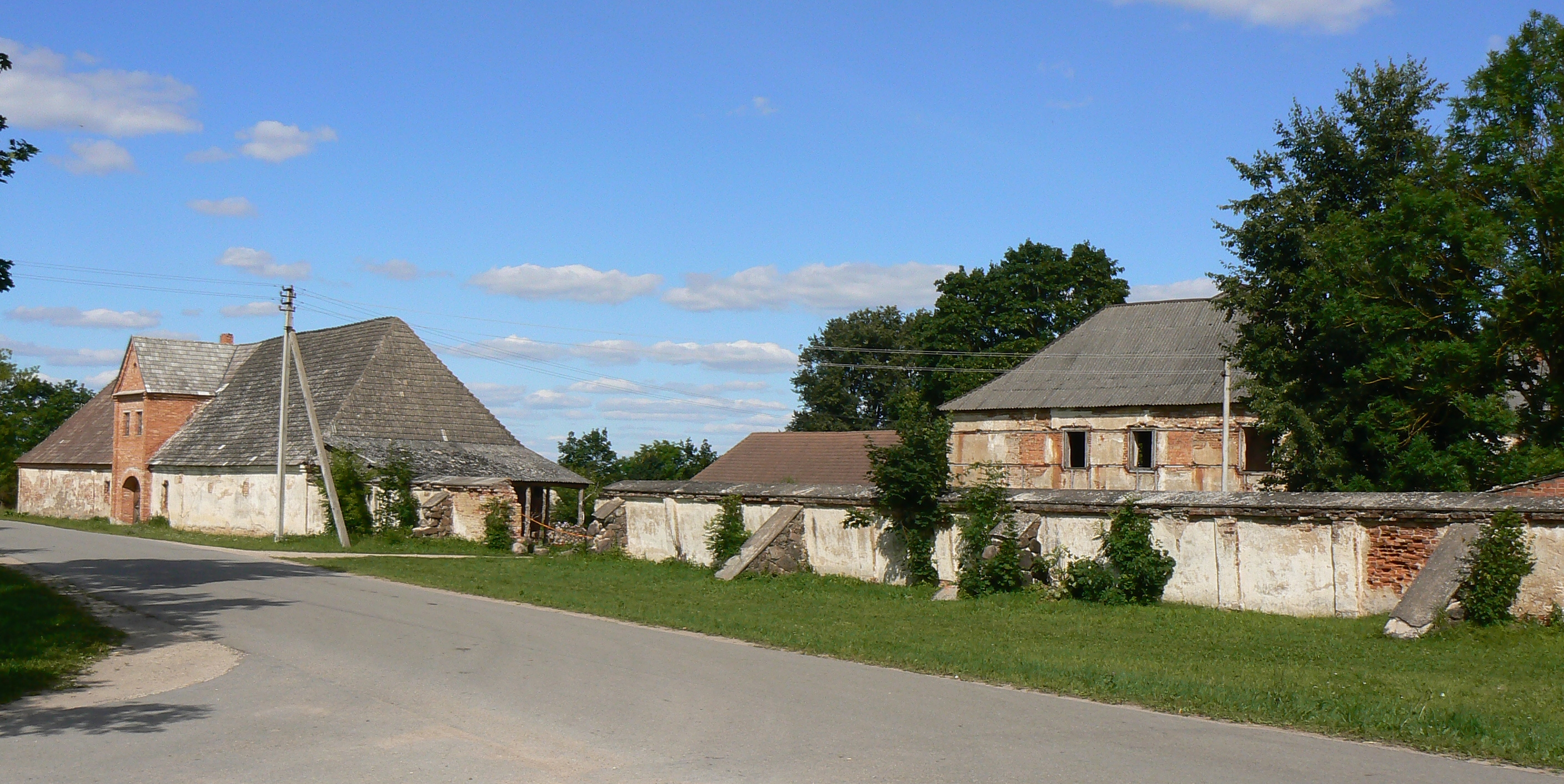 Monastery of Dominicans in Palėvenė (Lithuania).